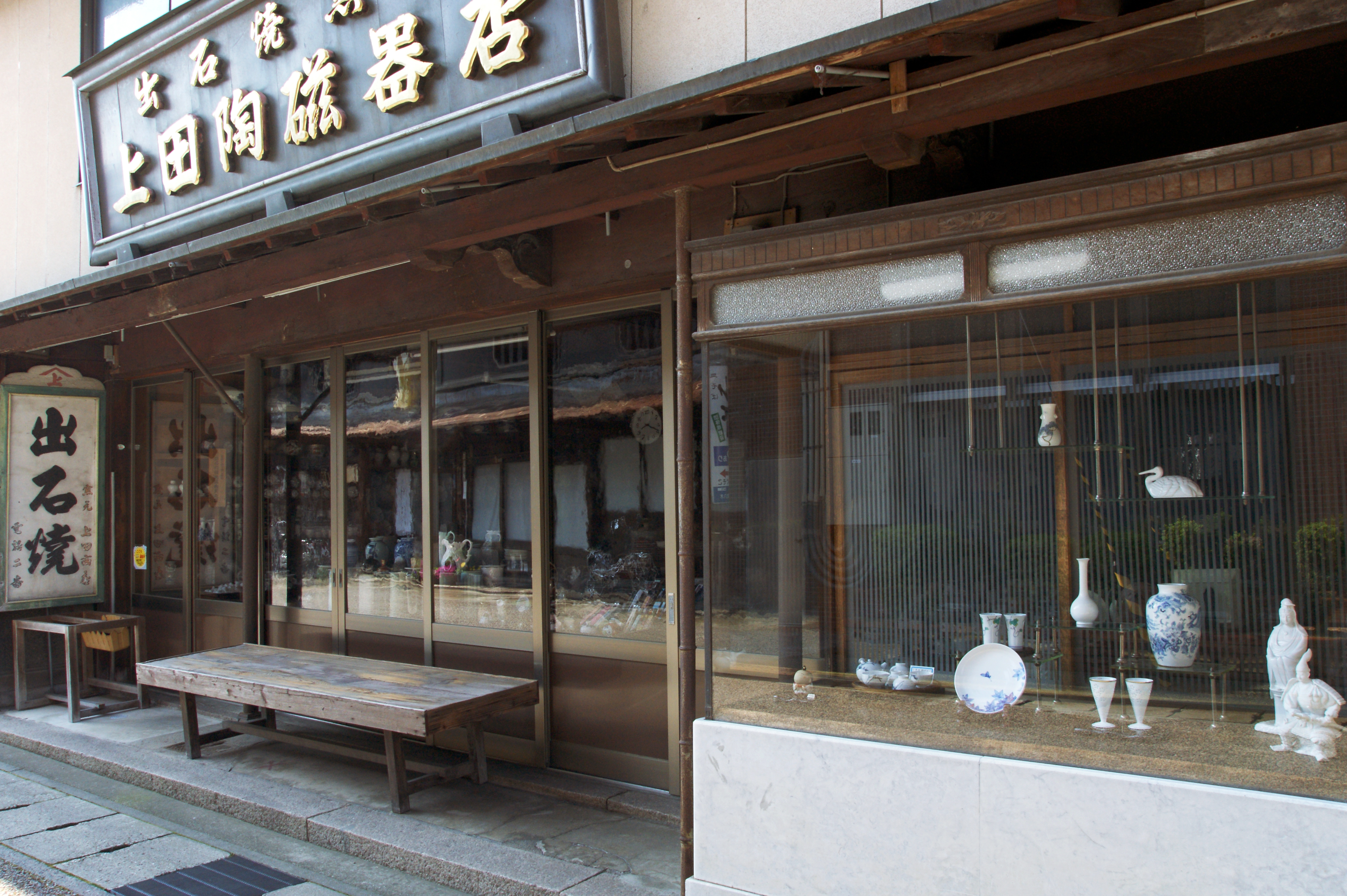 Izushi ware shop in Izushi, Toyooka, Hyogo prefecture, Japan.